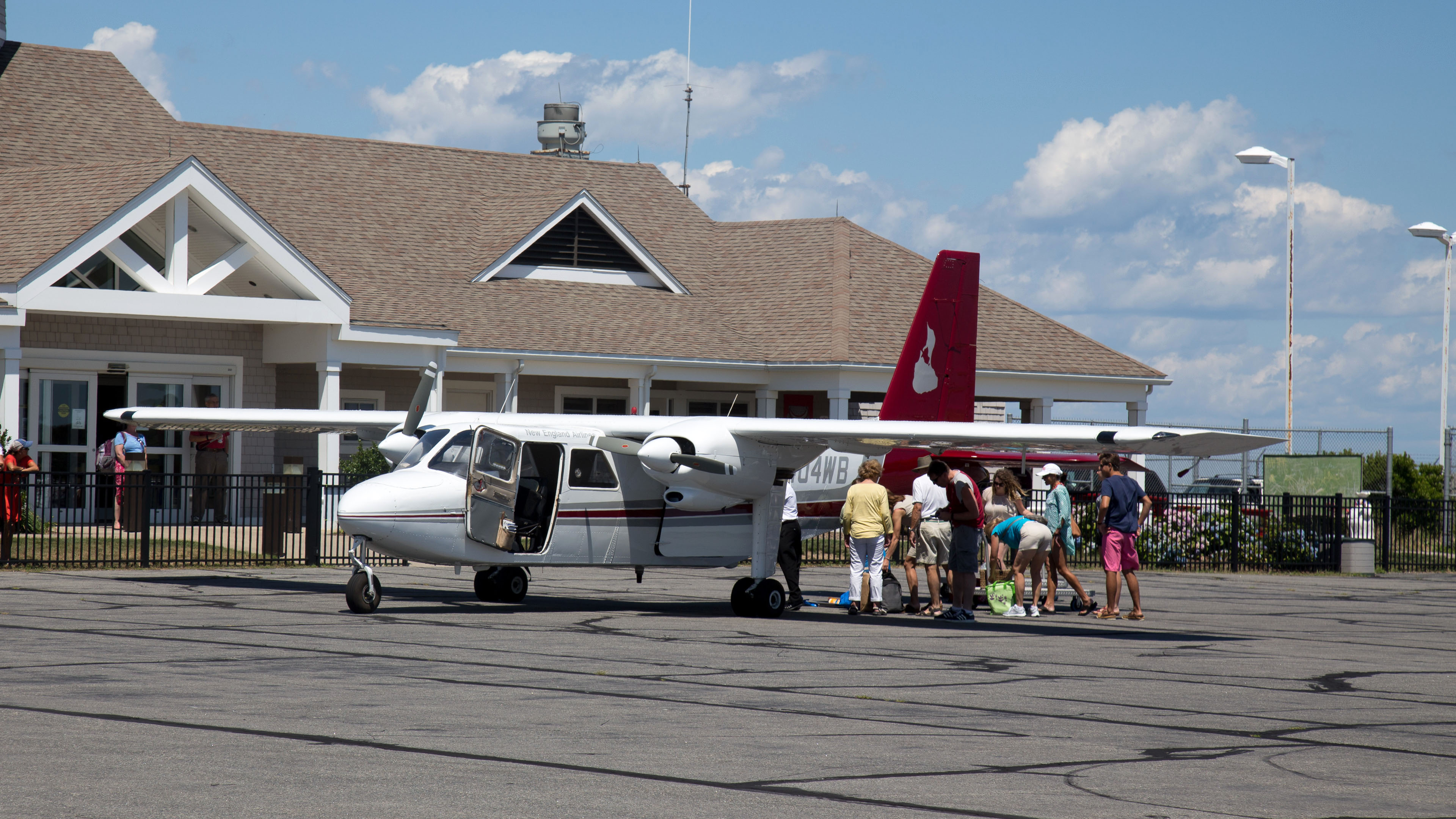 New England Airlines Britten-Norman Islander arrives at Block Island 7-23-2015.